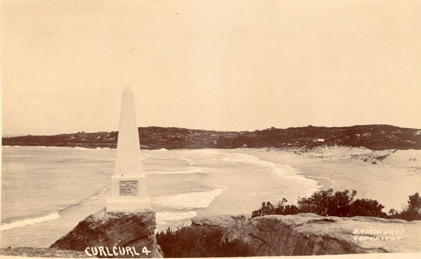 Curl Curl